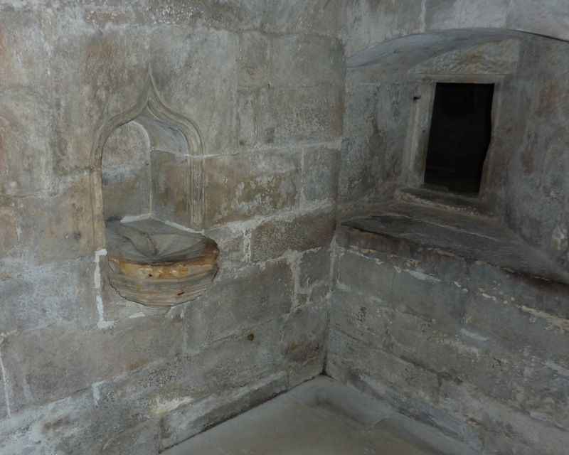 Seton Collegiate Church, East Lothian, Scotland: piscina and squint (hagioscope) in the sacristy